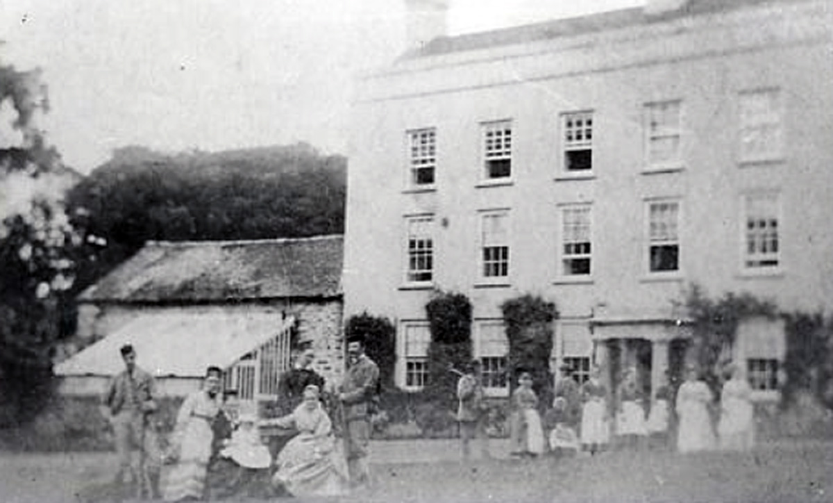 Cuffern Manor, Roch, Pembrokeshire circa 1900